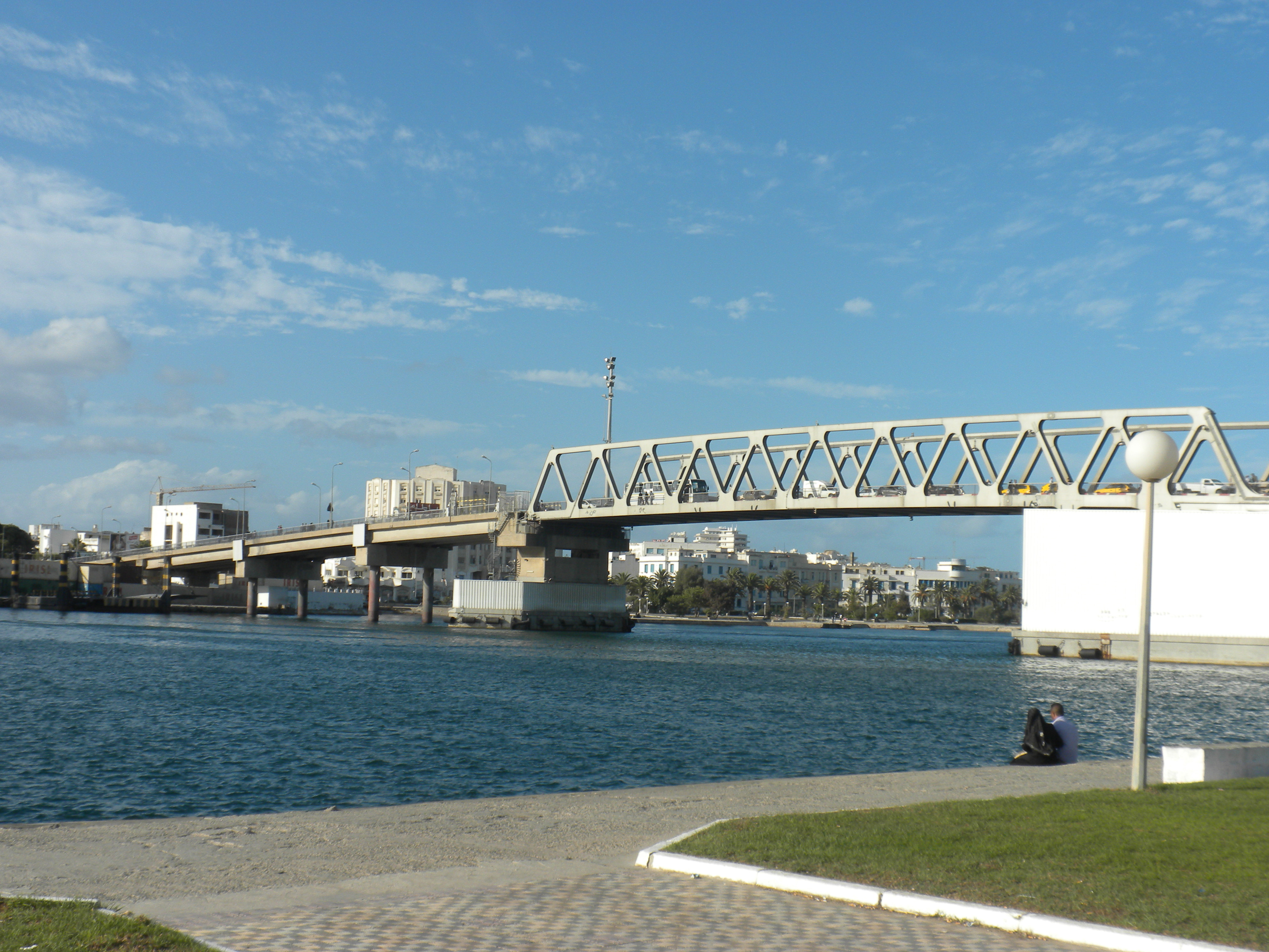 Bizerte bridge from south side(zarzouna)